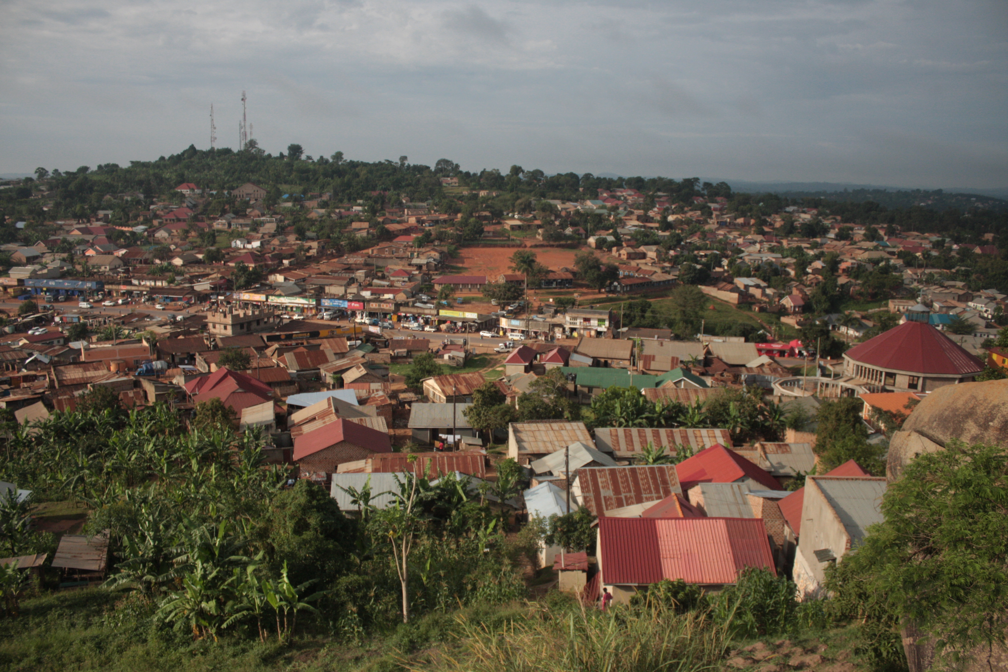 Matugga Town Skyline - November 2014